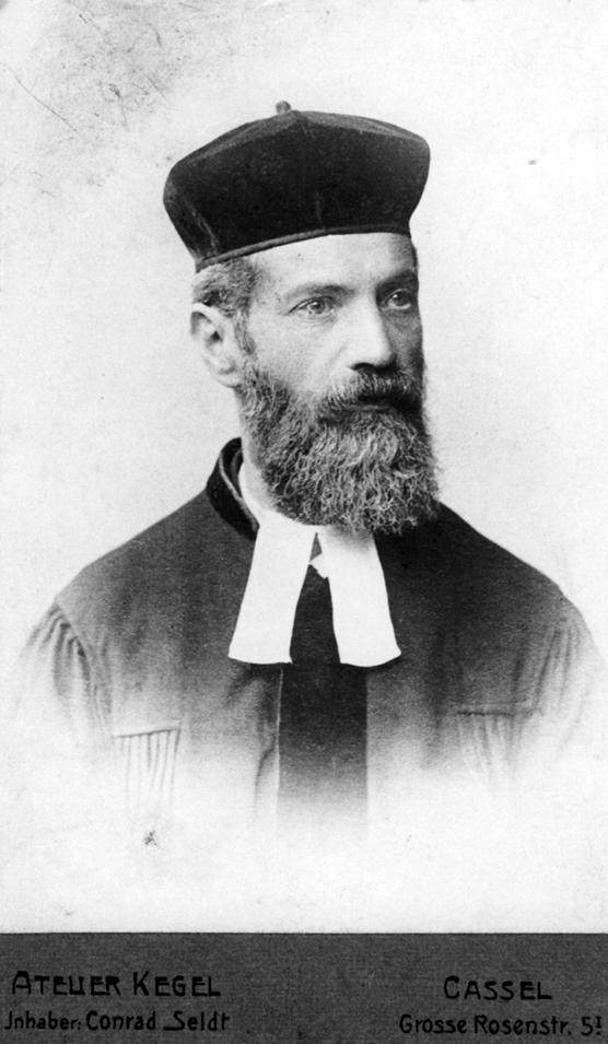 Rabbi Isaak Prager, rabbi of the great synagogue of Kassel (Germany)- Photo of 1904.